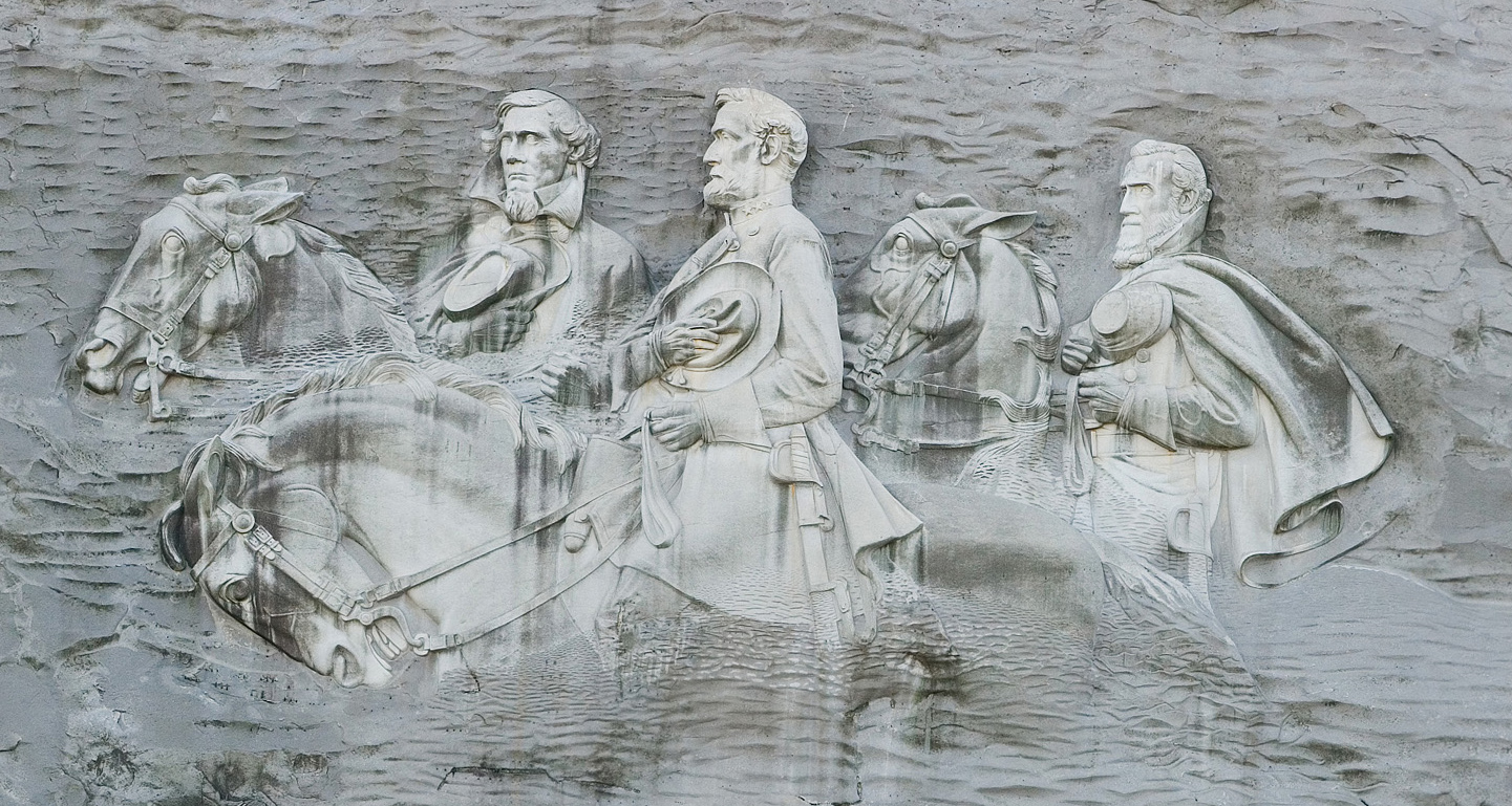 A mosaic stitched image of Stone Mountain, Georgia, United States. Taken with a Canon 5D and 70-200mm f/2.8L at 200mm.